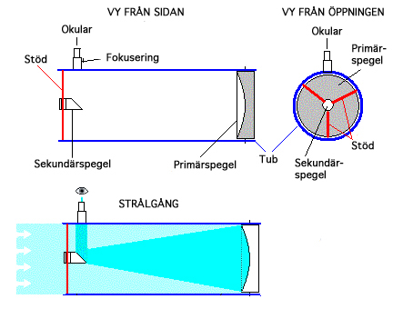 Newton telescope. Part names in Swedish